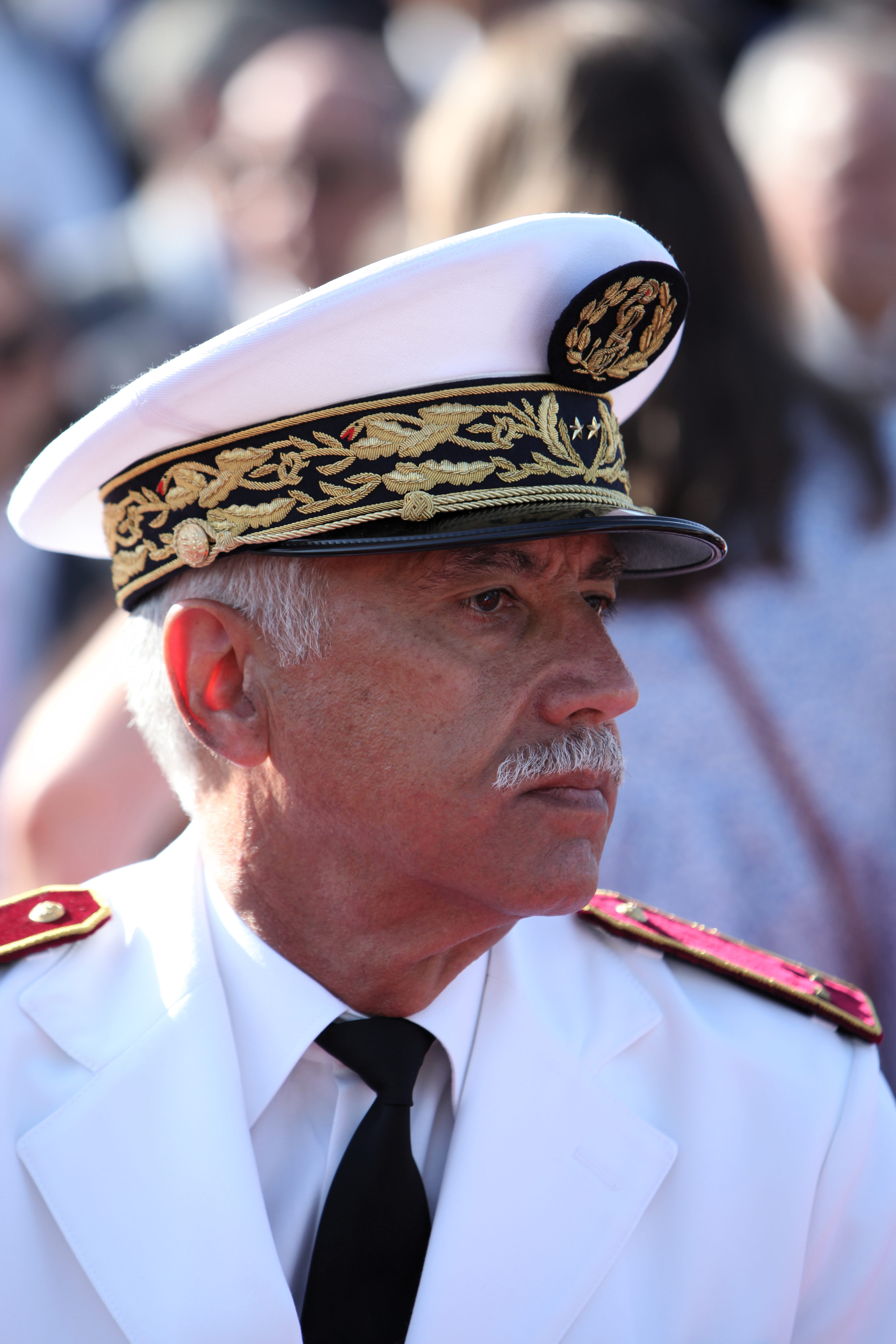 Surgeon general Jean-Pierre Carpentier, head of the École du personnel paramédical des Armées, at the ceremonies for the 14th of July 2012 in Marseille